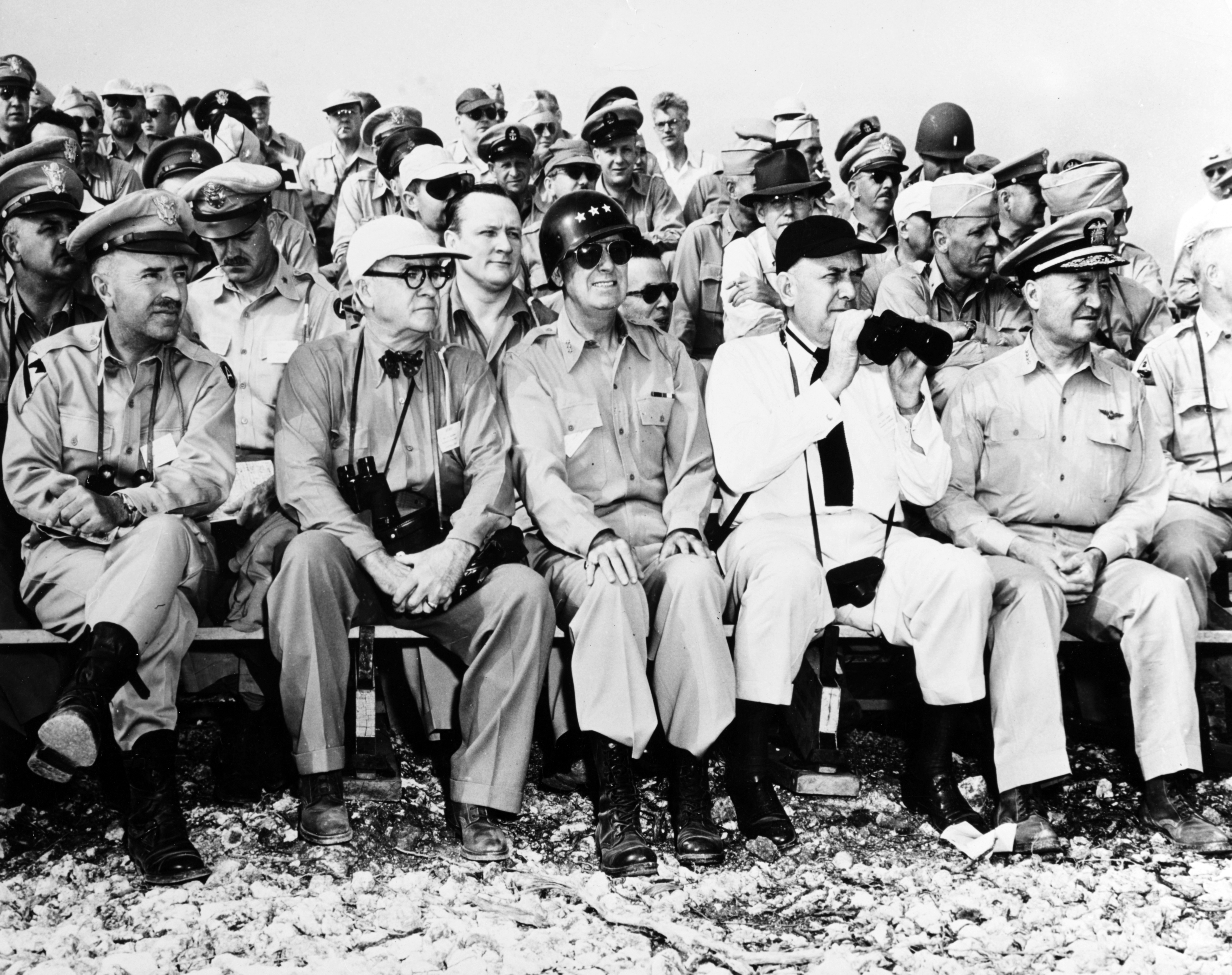 Senior U.S. Department of Defense officials and officers witness "Operation Portrex" D-Day maneuvers, 8 March 1950. Front row (left to right): Major General William C. Chase, U.S. Army; Secretary of the Navy Francis P. Matthews; Lieutenant General W.H.H. Morris, U.S. Army; Secretary of Defense Louis Johnson; and Admiral Forrest P. Sherman, USN, Chief of Naval Operations. The objective of "operation Portrex" (for Puerto Rico Exercise) was to see how the combined forces of the U.S. Army, Marines, Navy, and Air Force would do as "liberators" of an enemy captured territory (Vieques) against the "aggressors".